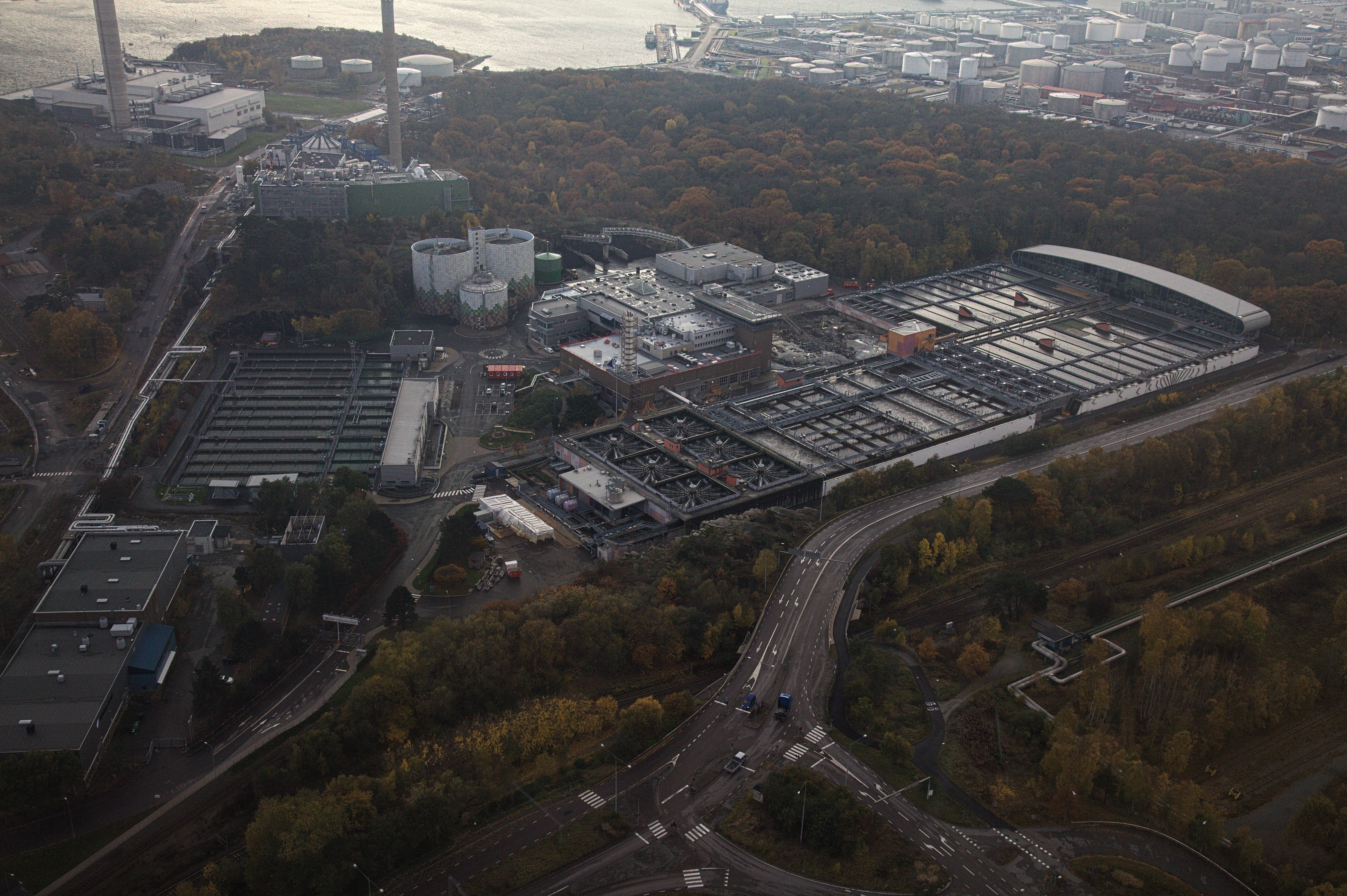 Photo taken on a helicopter over Gothenburg